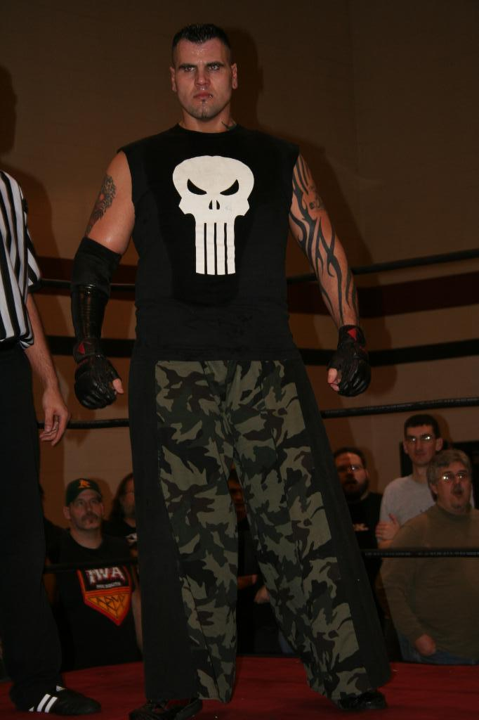 Brain Damage at IWA-MS 500th Show